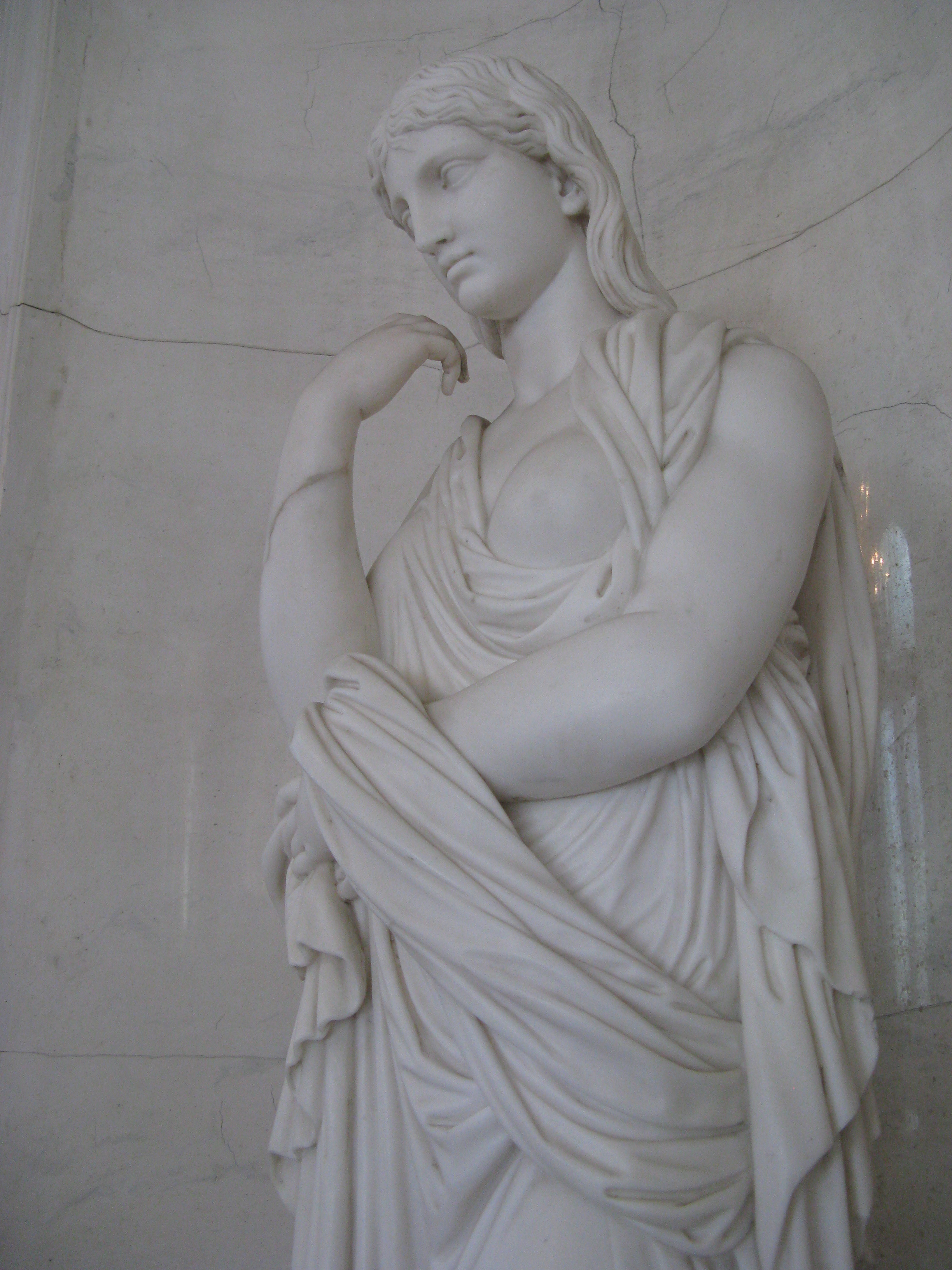 A copy of Thusnelda at the Hermitage.